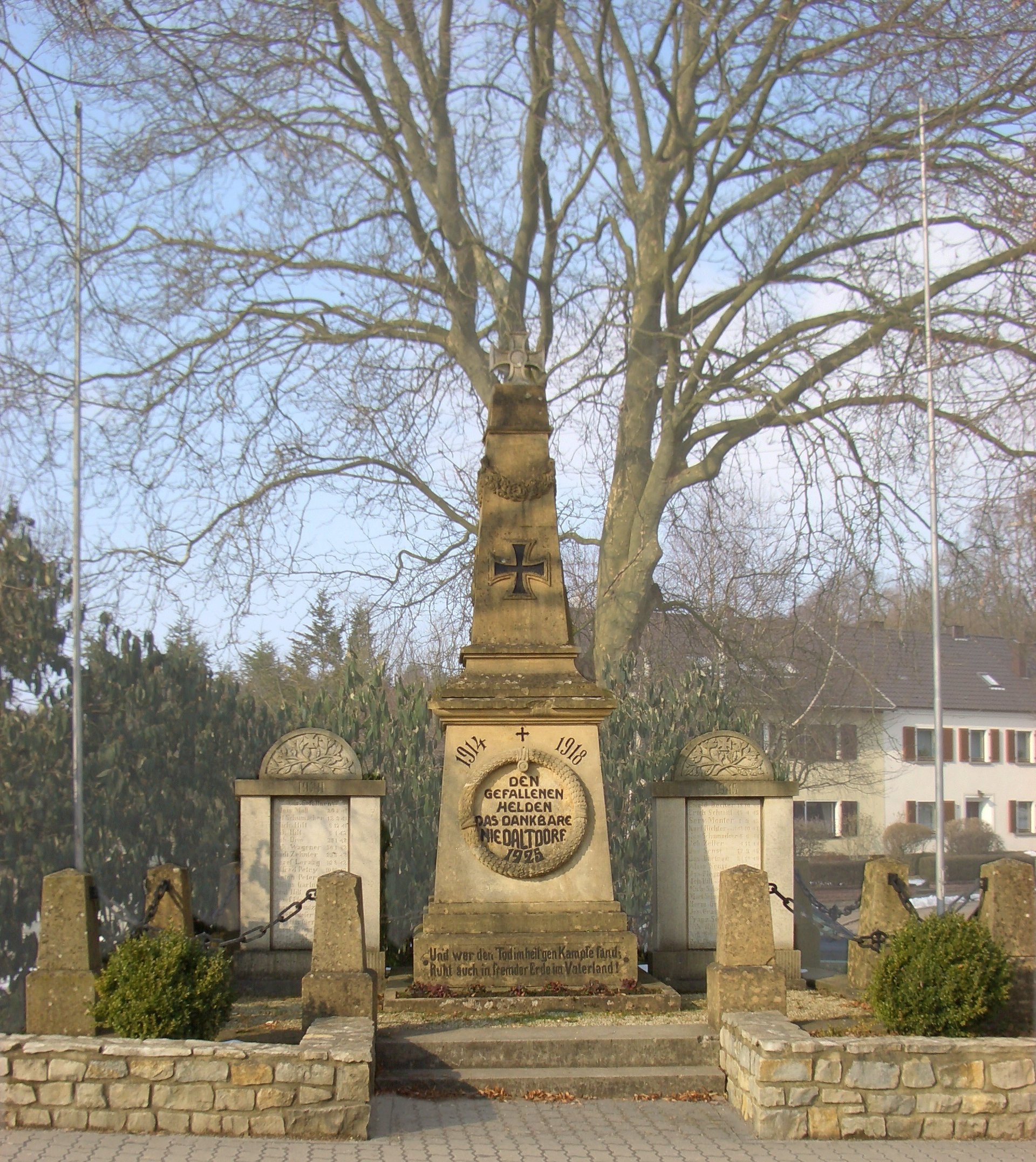 Niedaltdorf, war memorial 1914-18